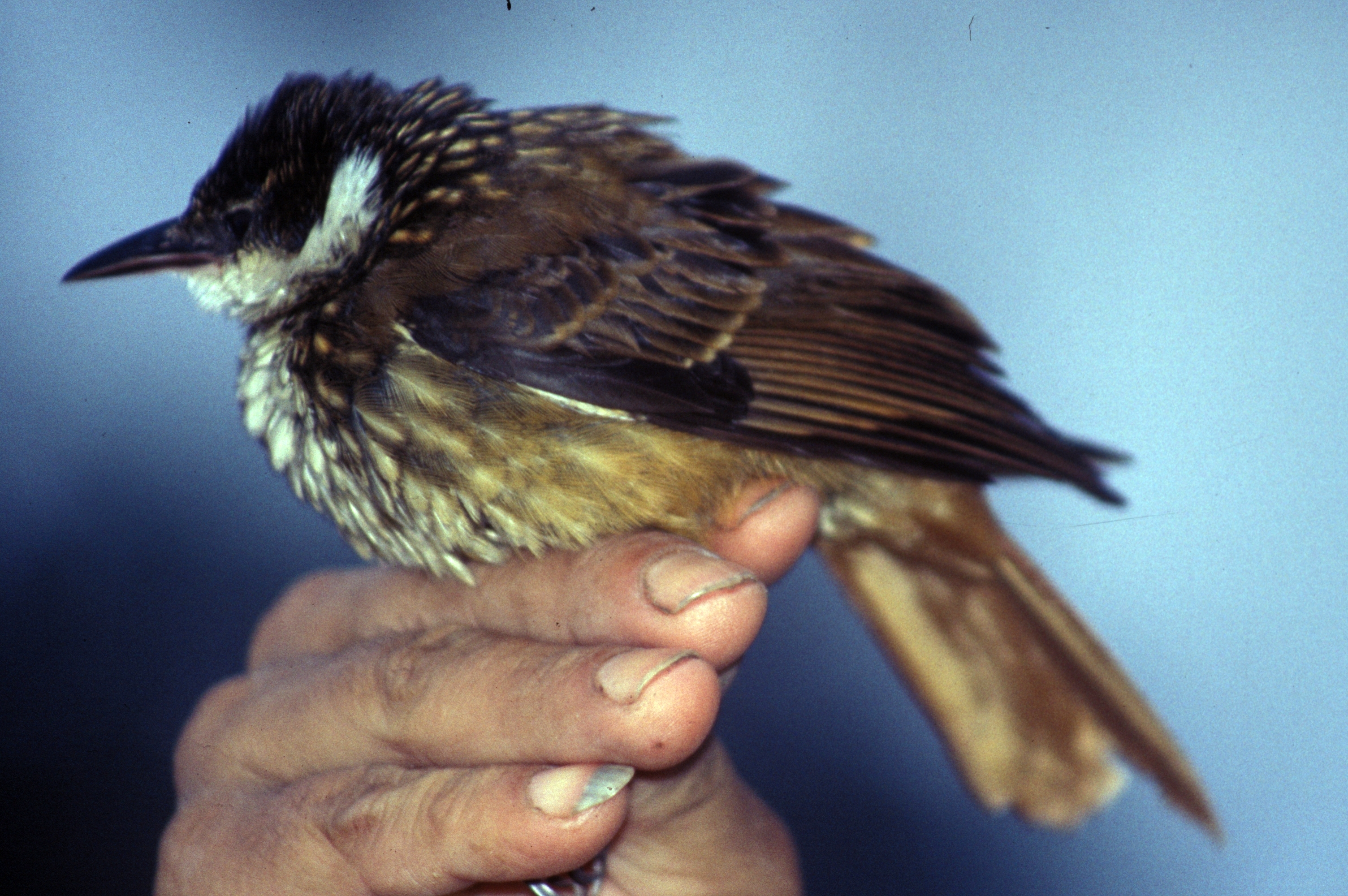 Streaked Tuftedcheek (Pseudocolaptes boissonneautii) from Ecuador